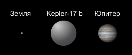 Comparative sizes of Earth, Kepler-17 b and Jupiter.